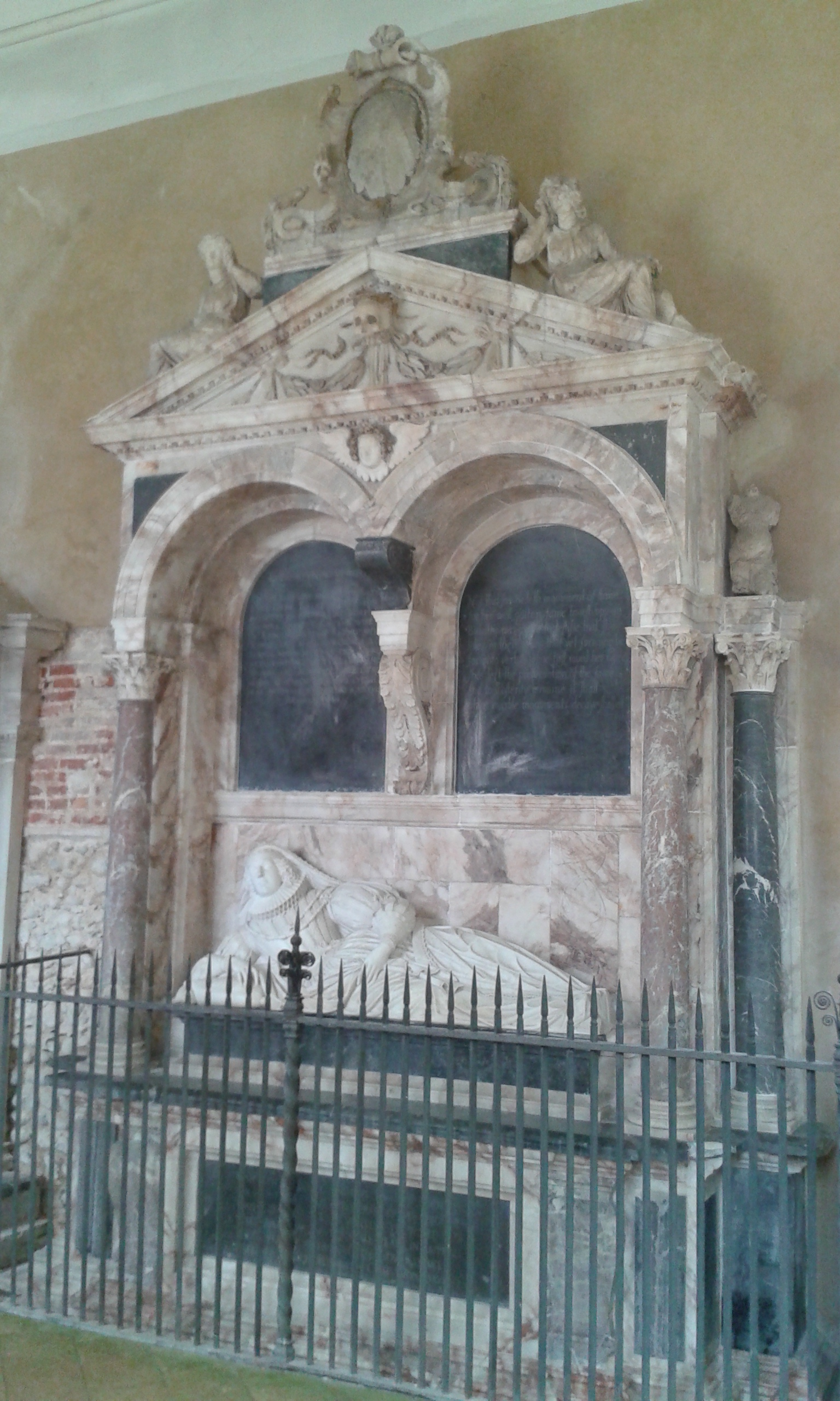 Tomb of Lady Katherine Paston, died 1628, Paston Church, Norfolk, England